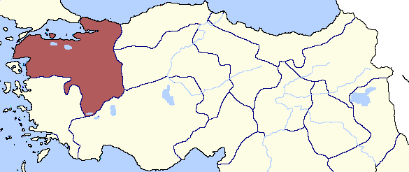 Bursa/Hudavendigar Eyalet in 1861. According to the information of this map: [1]